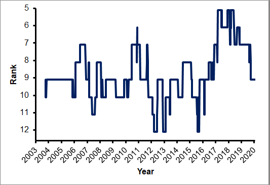 IRB World Rankings from